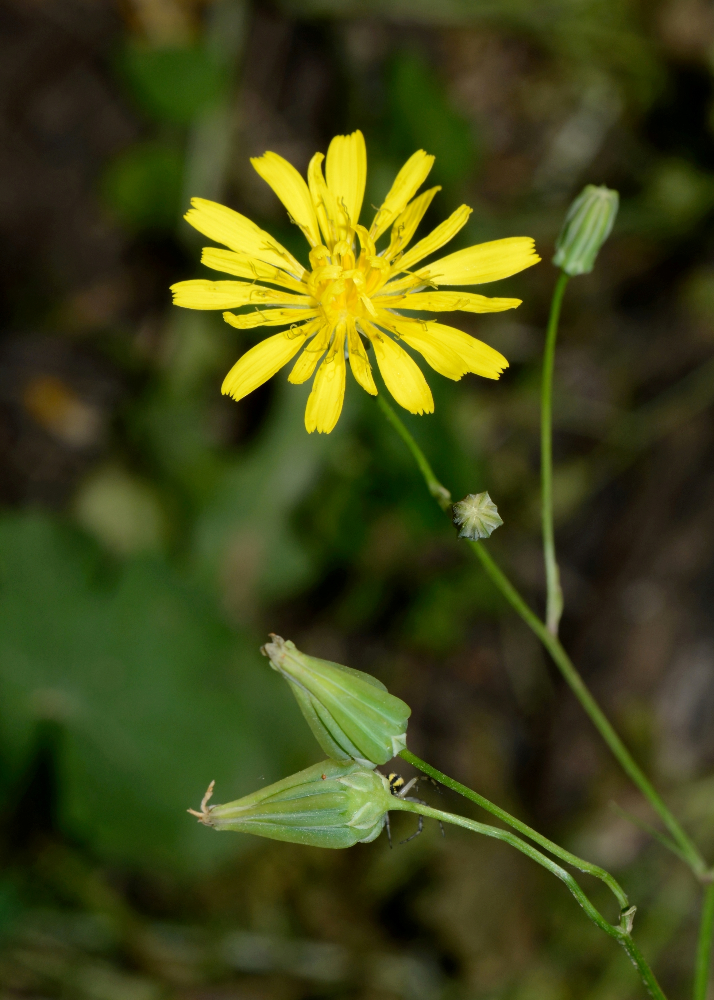 Crepis palaestina (Boiss.) Bornm., Mount Carmel, Israel, April 14, 2013.